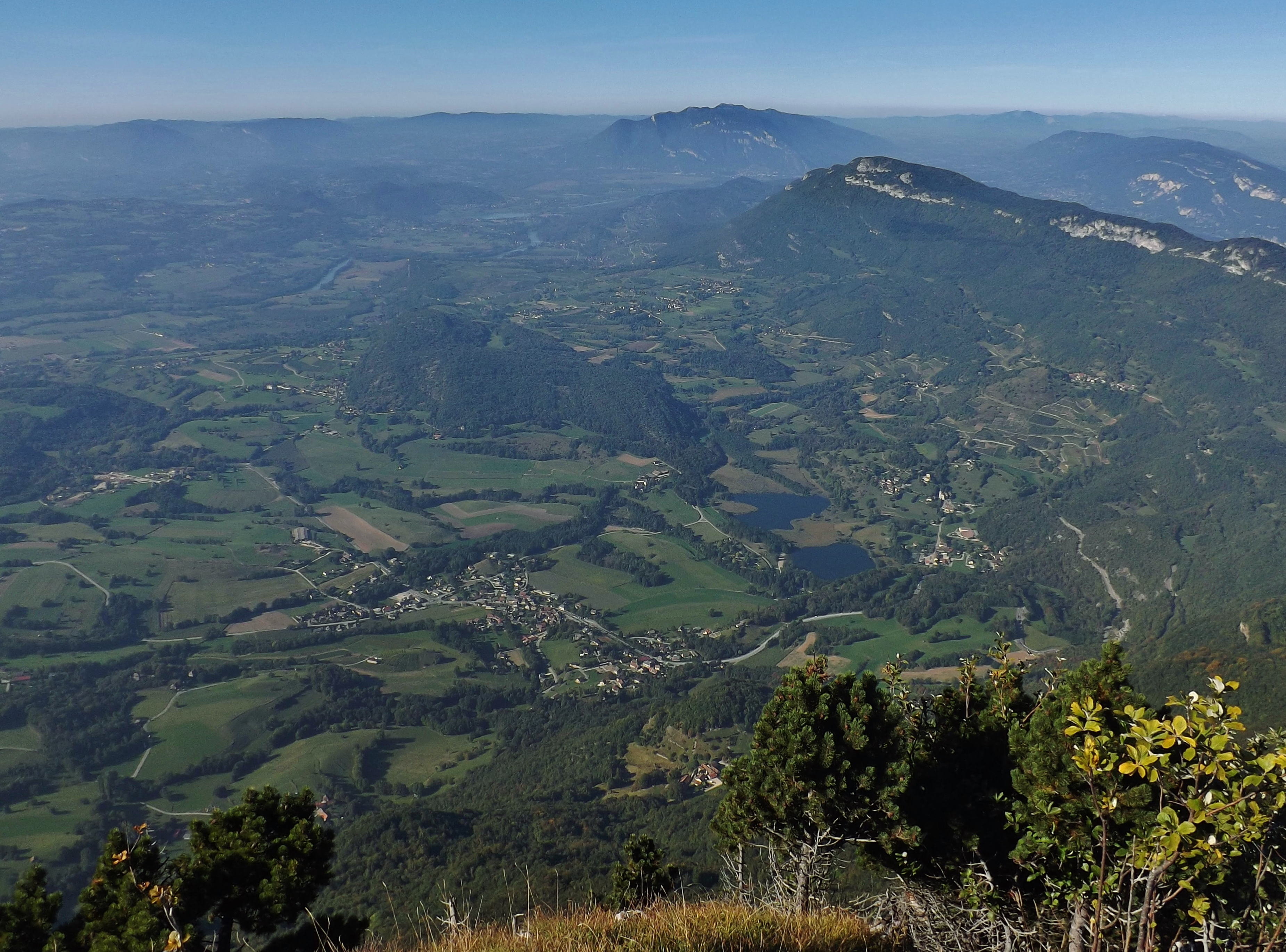 Aerian sight of the French commune of Saint-Jean-de-Chevelu, in the Avant-pays savoyard region, Savoie.